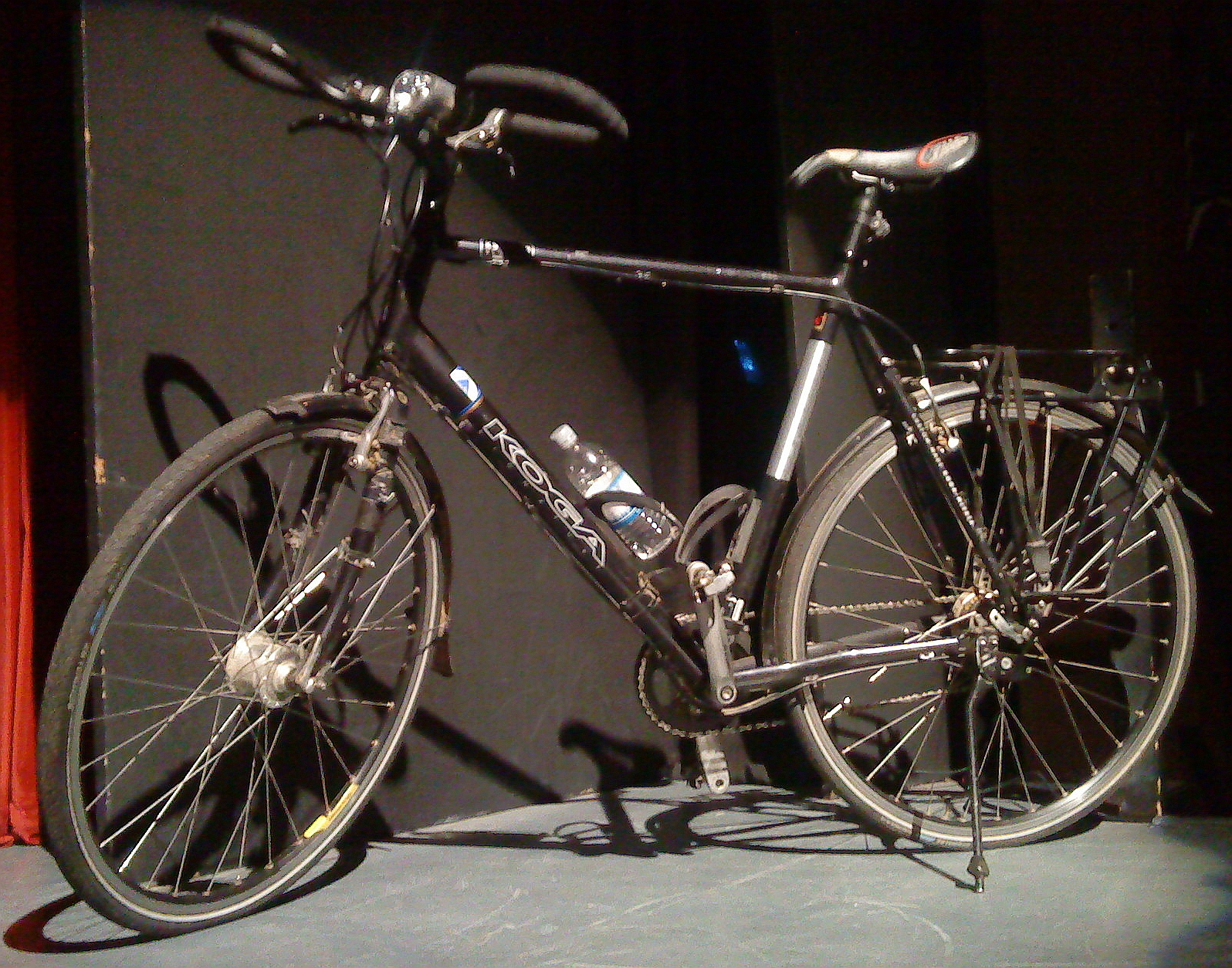 Koga Signature Traveller 28” (KS-TR 28) with Rohloff transmission. This is the bicycle that was ridden by Mark Beaumont during Americas cycle